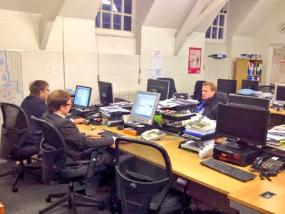 Open Europe Office